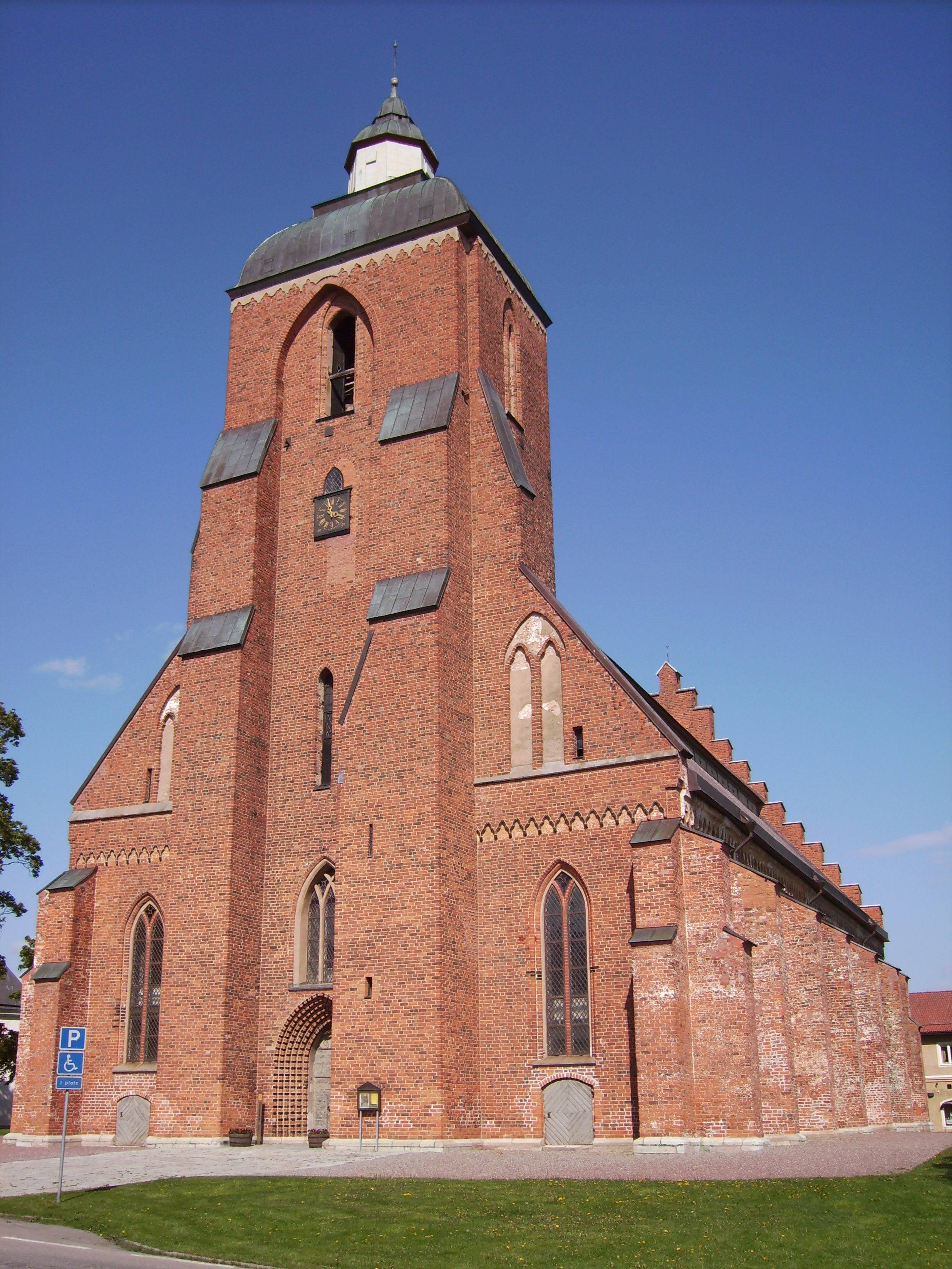 The Middle Age church ”Vårfrukyrkan” in Skänninge, built around 1300 by the German population in the town, the Swedish population had a different church, but after the Reformation this is the only church left in the town, churches and monasteries destroyed by the Swedish king Gustaf Vasa around 1550, when he need stones to his new castle in Vadstena.